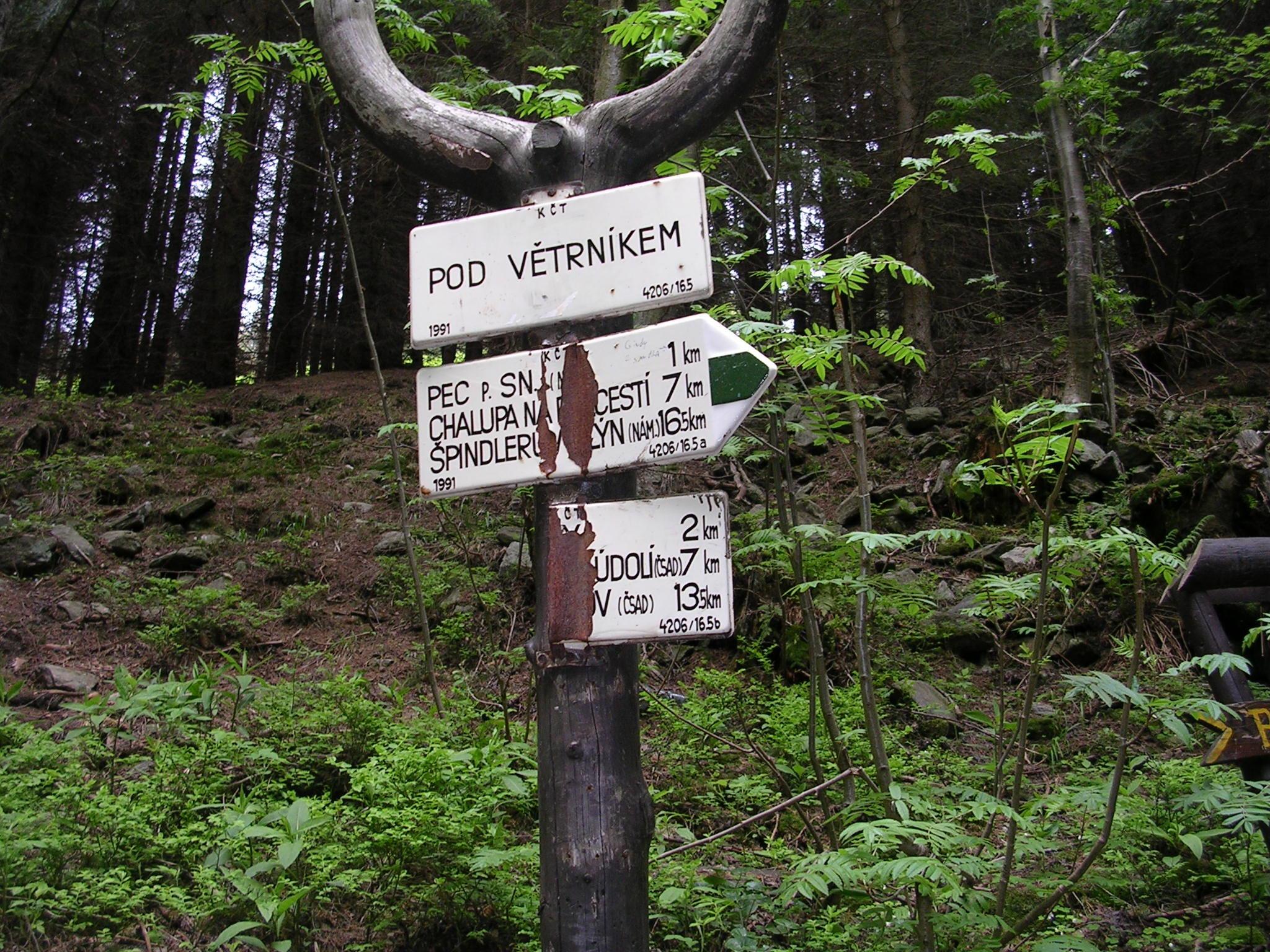 Hiking signs in Krkonoše Mountains, the Czech Republic.